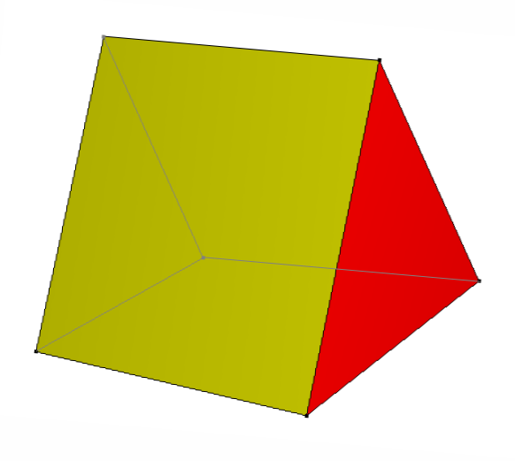 Triangular_prism, orientated as a Wedge (geometry)